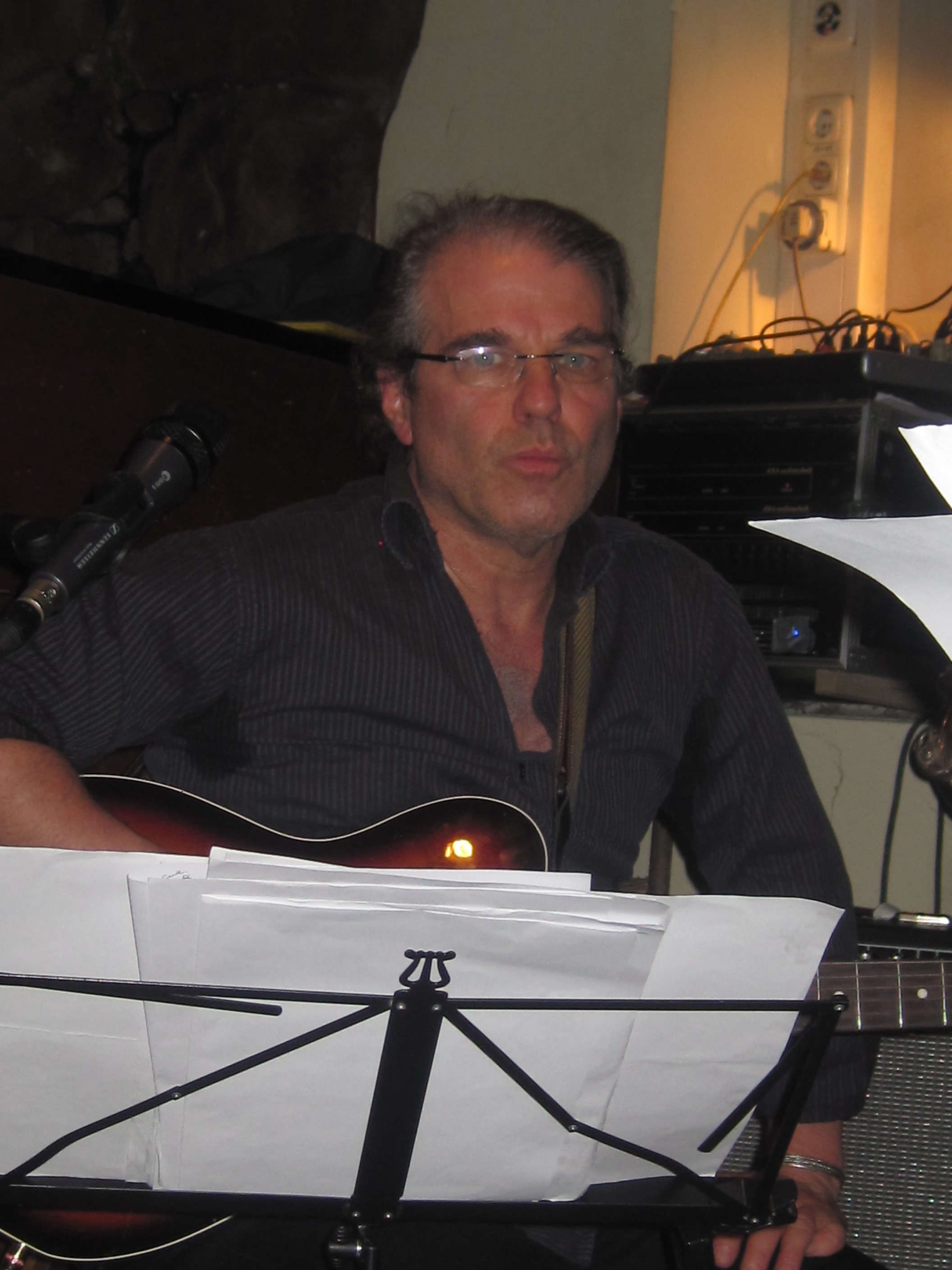 American jazz guitarist Geoff Goodman 2014 in jazz club Cavete Marburg.